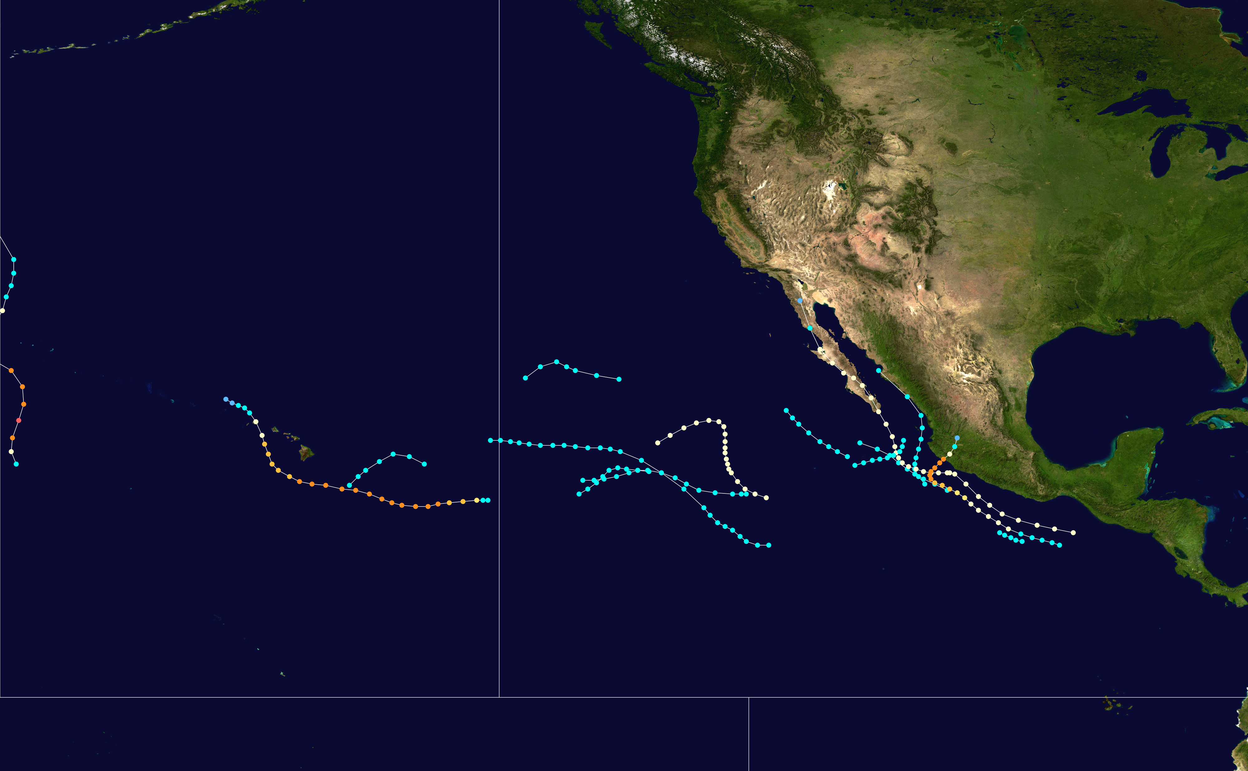 This map shows the tracks of all tropical cyclones in the 1959 Pacific hurricane season. The points show the location of each storm at 6-hour intervals. The colour represents the storm's maximum sustained wind speeds as classified in the Saffir-Simpson Hurricane Scale (see below), and the shape of the data points represent the type of the storm. Saffir–Simpson hurricane wind scale Tropical depression≤38 mph≤62 km/h Category 3111–129 mph178–208 km/h Tropical storm39–73 mph63–118 km/h Category 4130–156 mph209–251 km/h Category 174–95 mph119–153 km/h Category 5≥157 mph≥252 km/h Category 296–110 mph154–177 km/h Unknown Storm typeTropical cycloneSubtropical cycloneExtratropical cyclone / Remnant low / Tropical disturbance